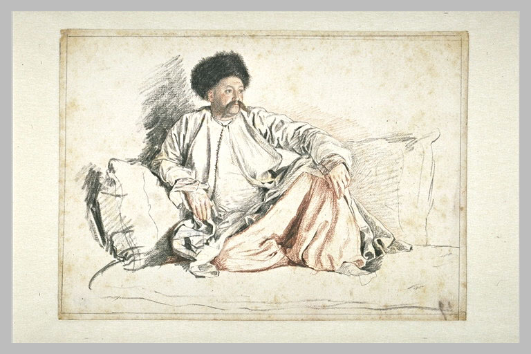 "Portrait de M. Levett, négociant anglais, en costume tartare," (Portrait of Mr. Levett, English merchant, in Tatar costume), by the French-Swiss artist Jean-Etienne Liotard. Courtesy of the Louvre Museum, Paris